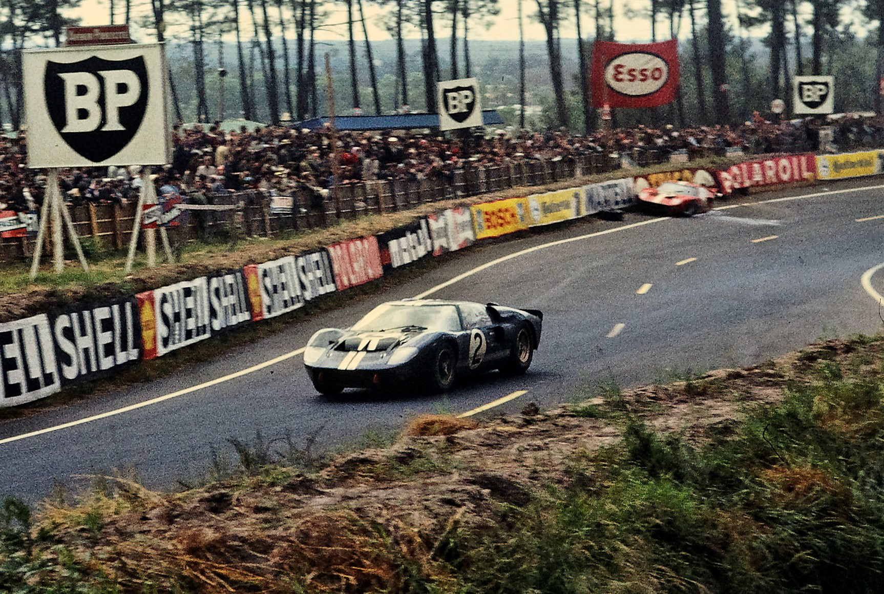 1966 24 Hours of Le Mans.